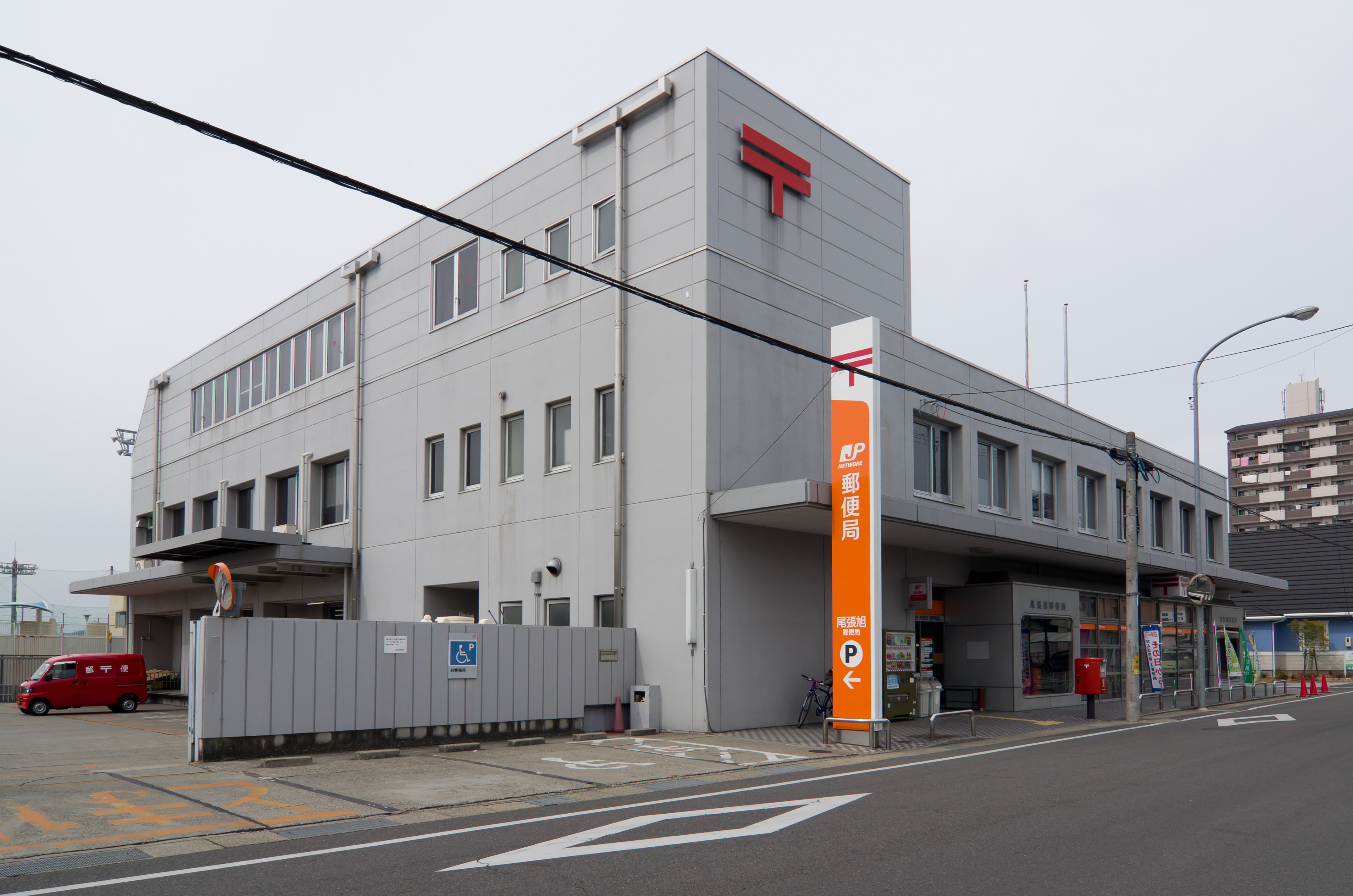 Owariasahi Post Office in Owariasahi, Aichi Japan.